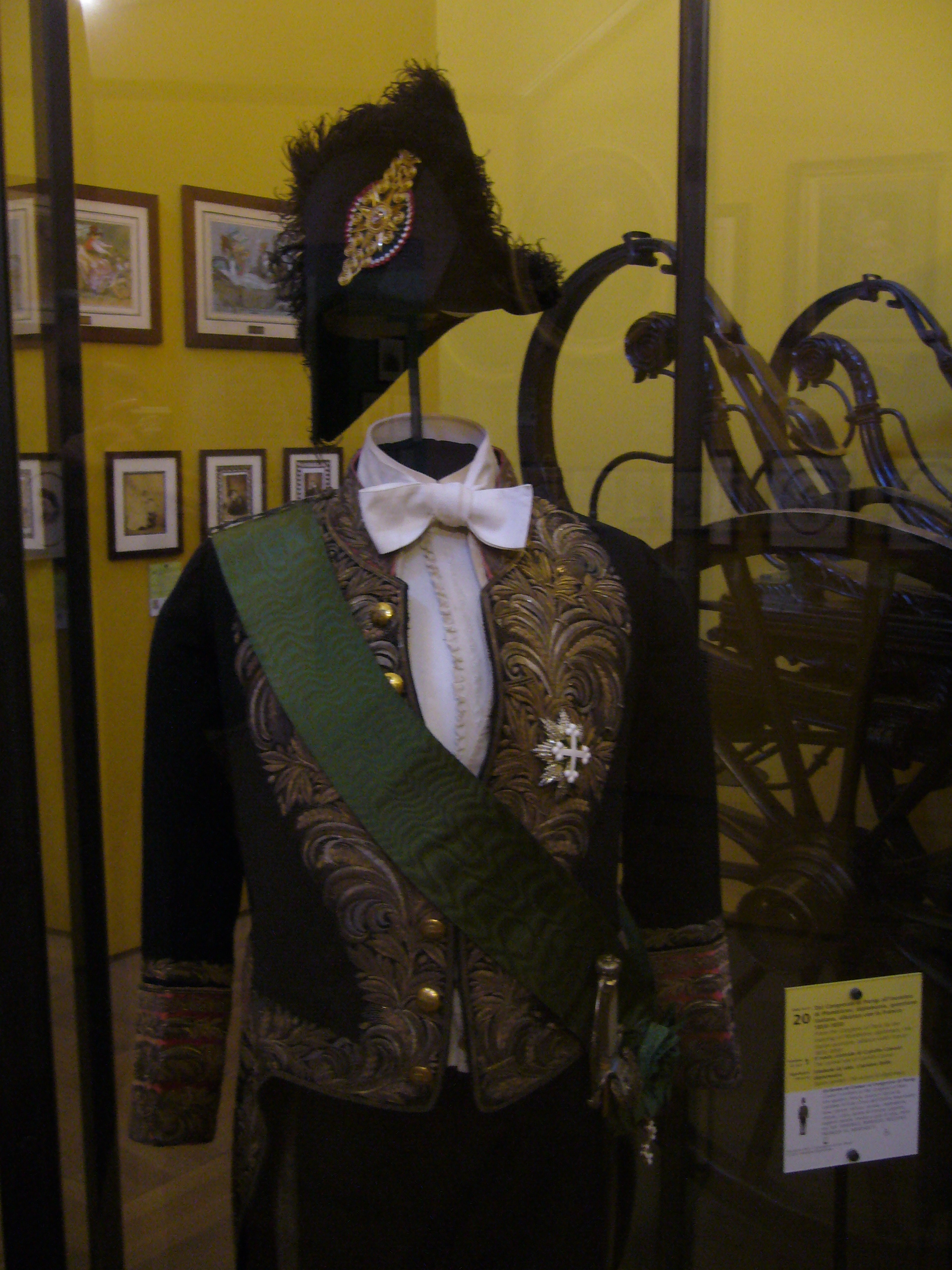 Cavour's uniform at the Congress of Paris (1856) exhibited at the Museum of the Risorgimento in Turin